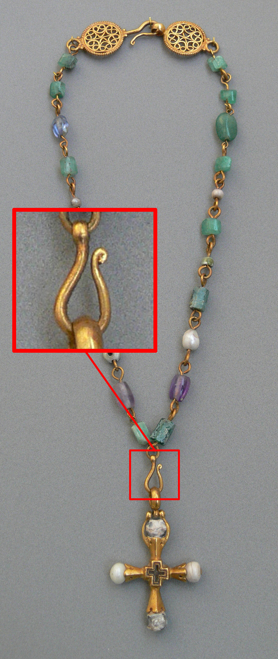 Necklace with cross; gold/pearls/gems; Byzantine Empire; 6th/7th century AD. Museum für Byzantinische Kunst (Inv. 2/72; acquired in 1972), Bode-Museum, Berlin. Showing close up of bail attaching cross to necklace.